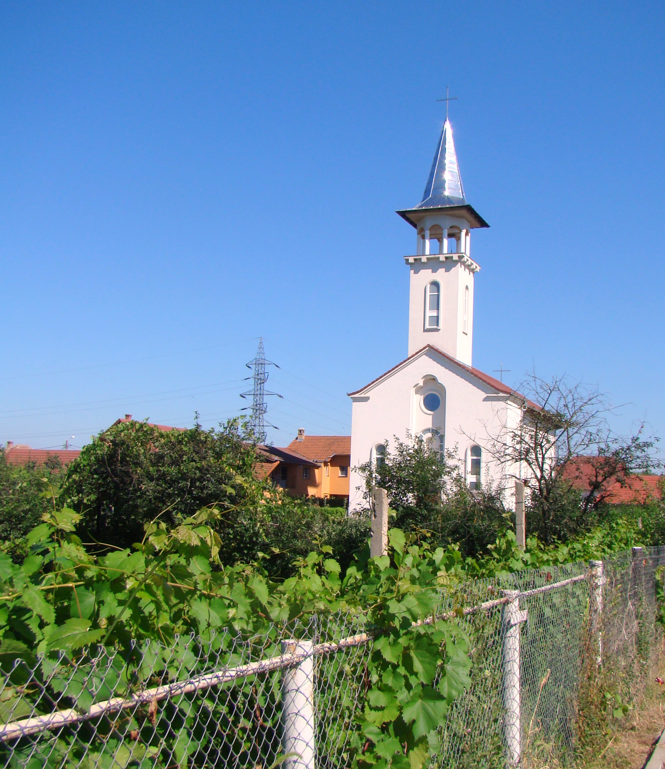 Bărăbanț, Alba county, Romania